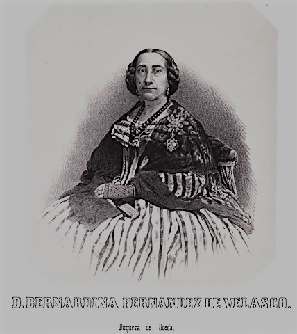 Bernardina Fernández de Velasco X duquesa de Uceda